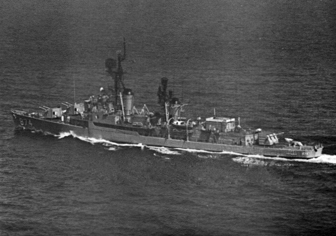 The U.S. Navy Gearing-class destroyer USS Duncan (DDR-874) during her final cruise in 1970. Note that the SPS-8A height finder radar was removed but she still carries the TACAN URN-3/-6 antenna.